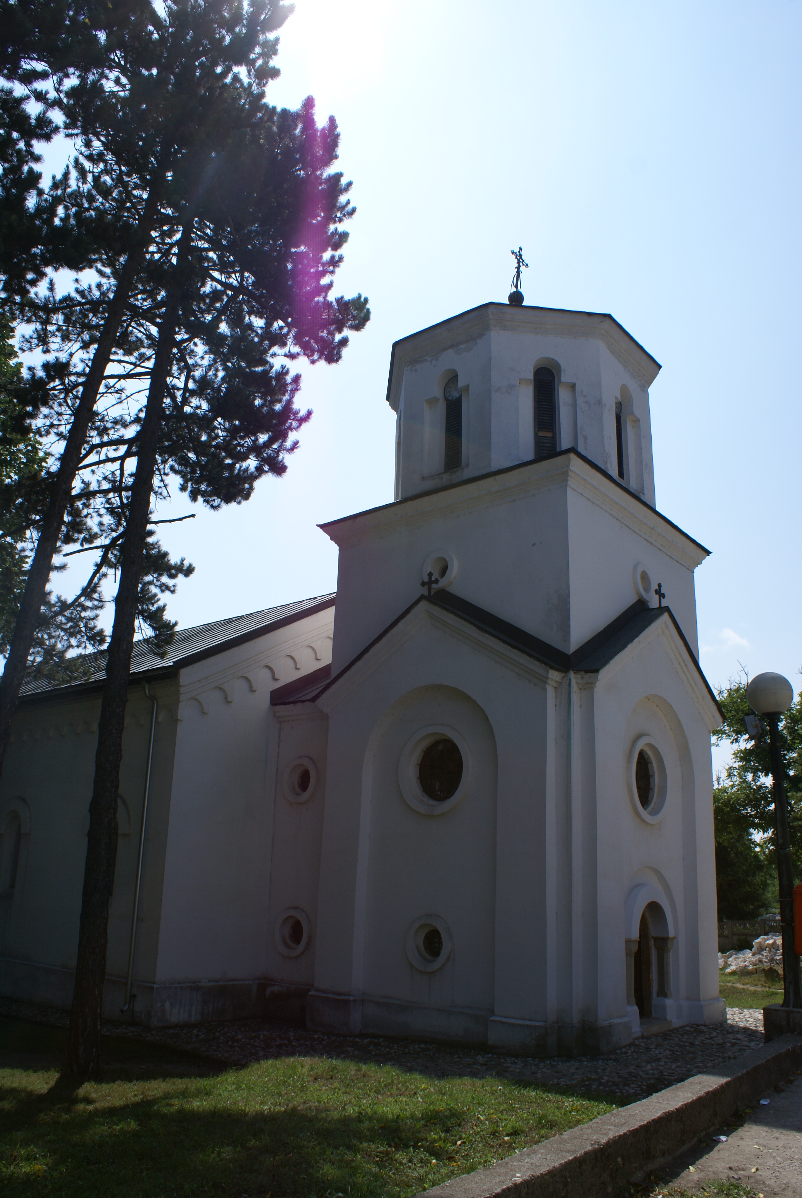 Crkva Zlot